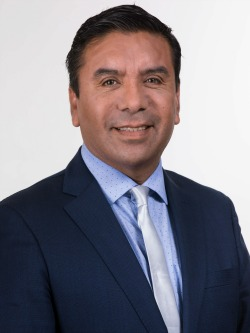 Pedro Velásquez Seguel en la fotografía oficial de diputados periodo 2018-2022. (Fotos: Christel Andler, René Lescornez, Johanna Zárate)